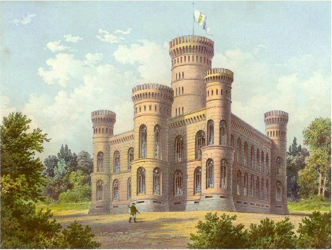 Lithograph of Granitz Castle in Germany